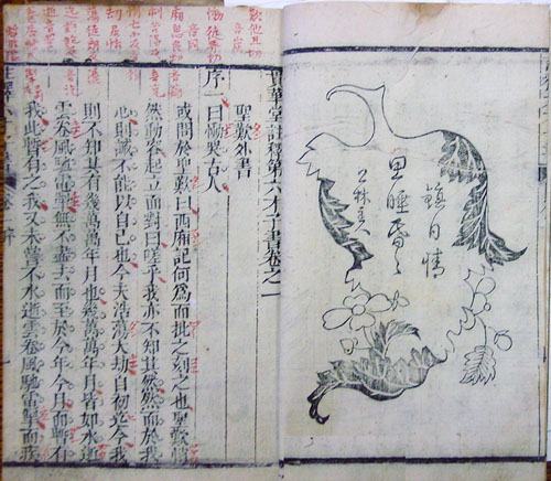 Jin Shengtan's edition of Romance of the West Chamber